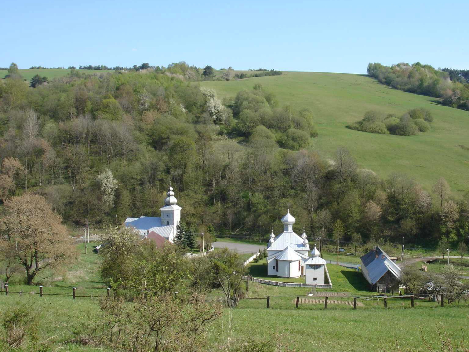 Palota (Slovakia) - Churches